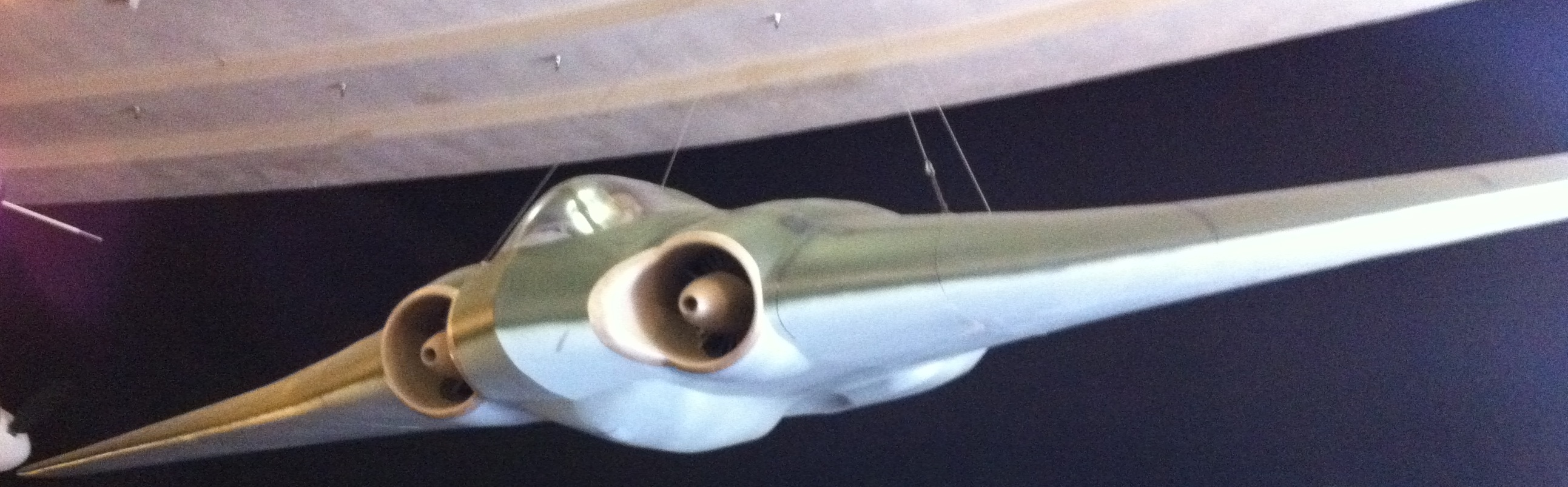 Taken at the San Diego Air and Space Museum of a replica of a German Horten 229 flying wing